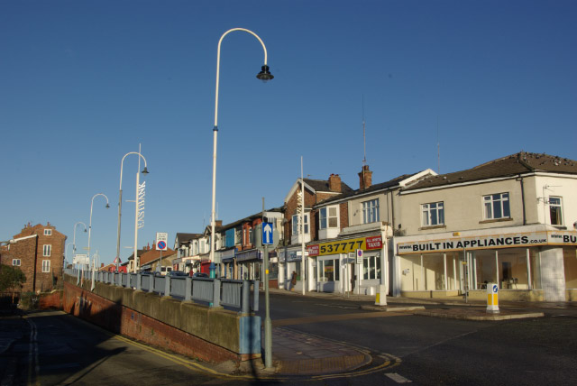 Eastbank Street, Southport Looking towards the town centre; Southport is very flat and the road ascends a ramp in order to cross the Liverpool - Southport railway.